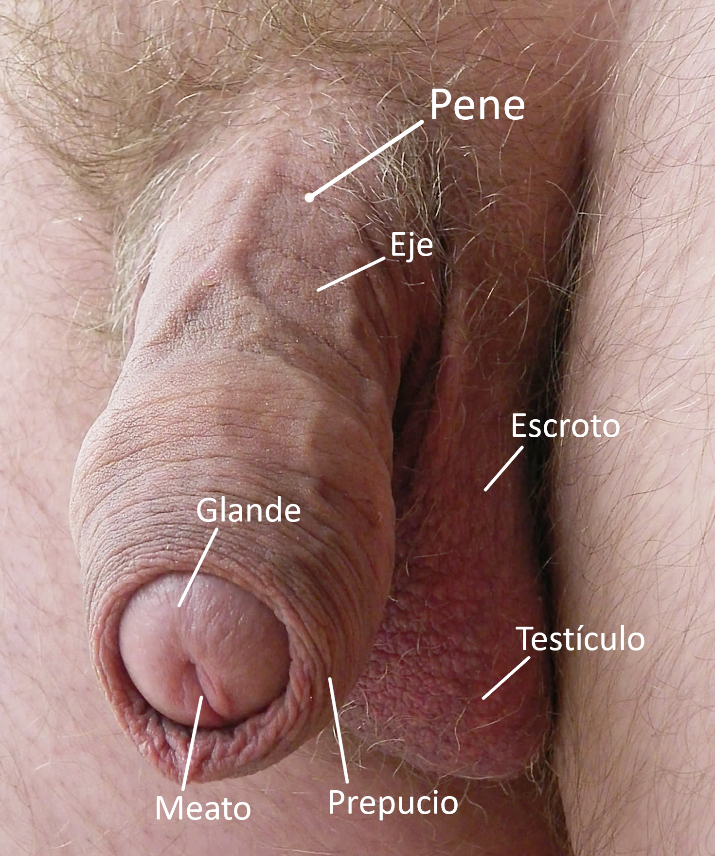 Flaccid penis labelled in Spanish.